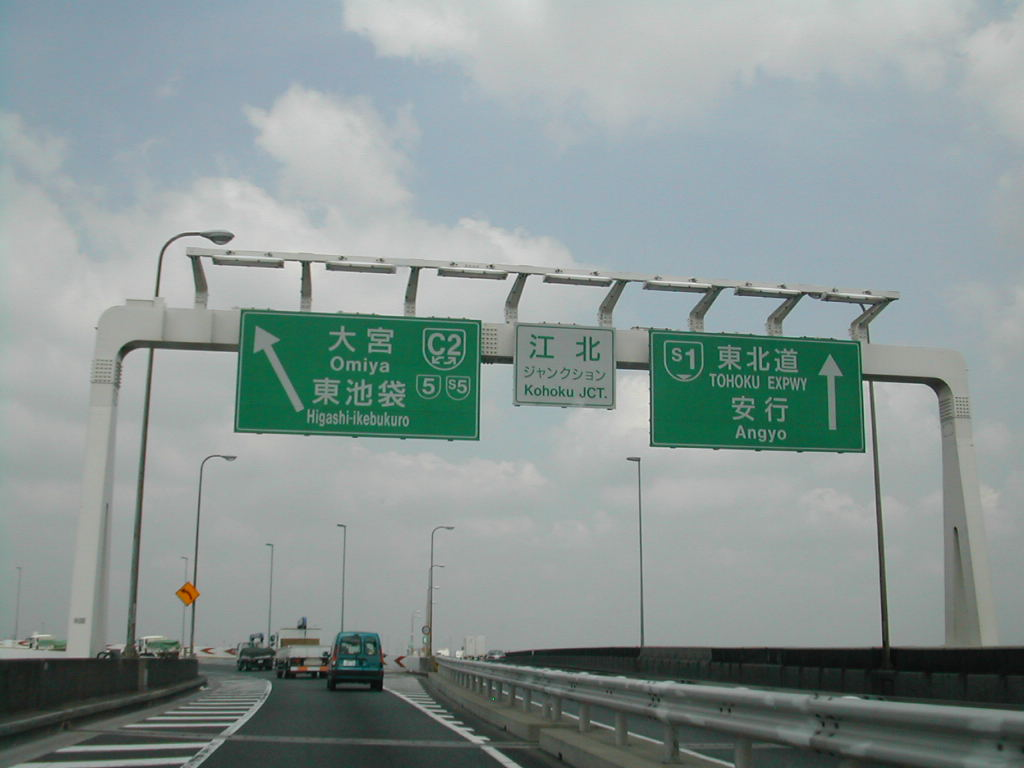 Kohoku Junction in Adachi Ward, Tokyo, Japan